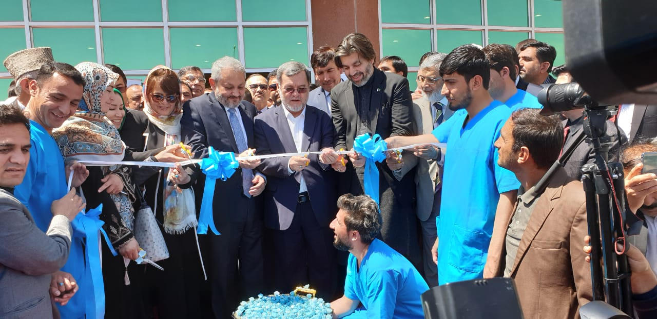 Inauguration Ceremony held on 20 April 2019 in Muhammad Ali Jinnah Hospital in Afghanistan